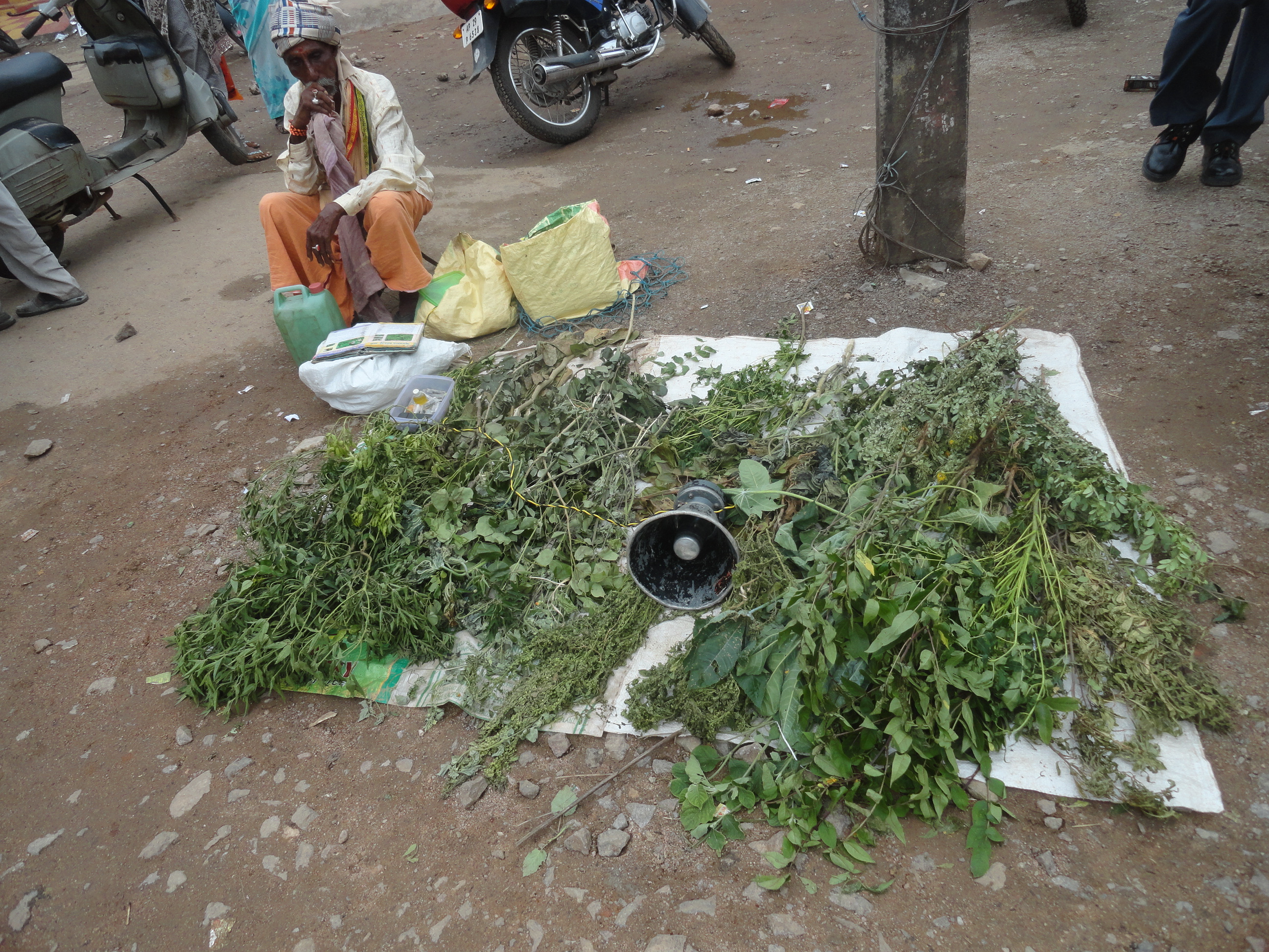 వనమూలికలు